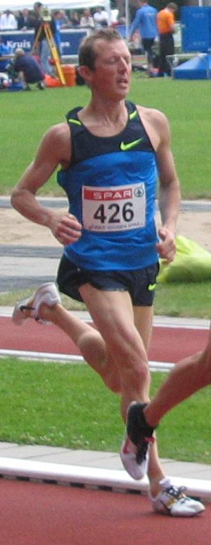 Tom Compernolle